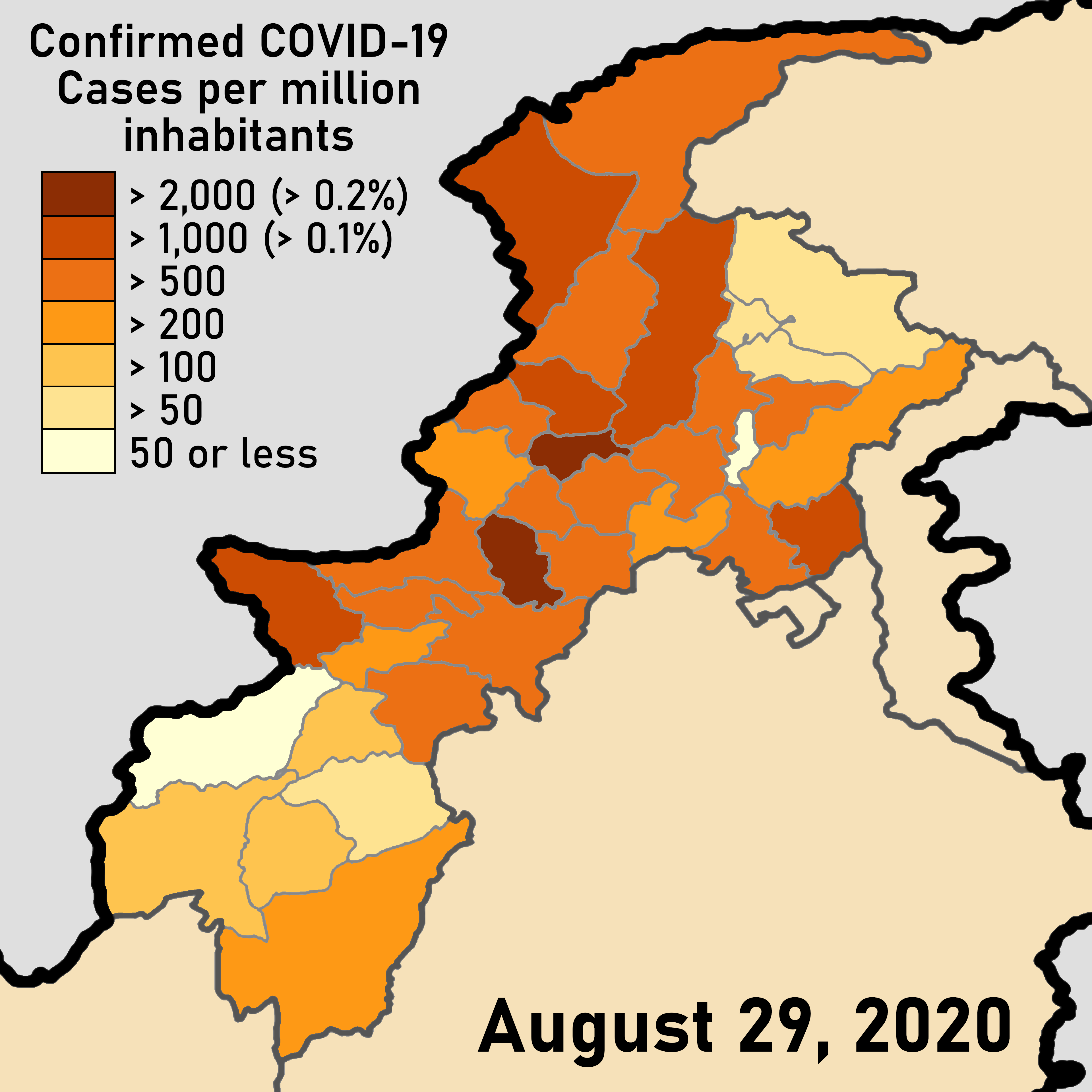 This is a map showing the districts of Khyber Pakhtunkhwa, a province in Pakistan by the amount of COVID-19 Cases in them per million inhabitants. Population data has been taken from the Pakistan Bureau of Statistics and can also be found in the Wikipedia article Districts of Khyber Pakhtunkhwa. COVID-19 Case data has been taken from the KPK Health Department's Twitter Account and while they update their numbers daily, this map is updated only weekly. the template is my own and was created using maps and data from the Pakistan Bureau of Statistics. It follows the Mercator Projection. This file's latest update reflects data for August 29, 2020, and the case data for that day is located here